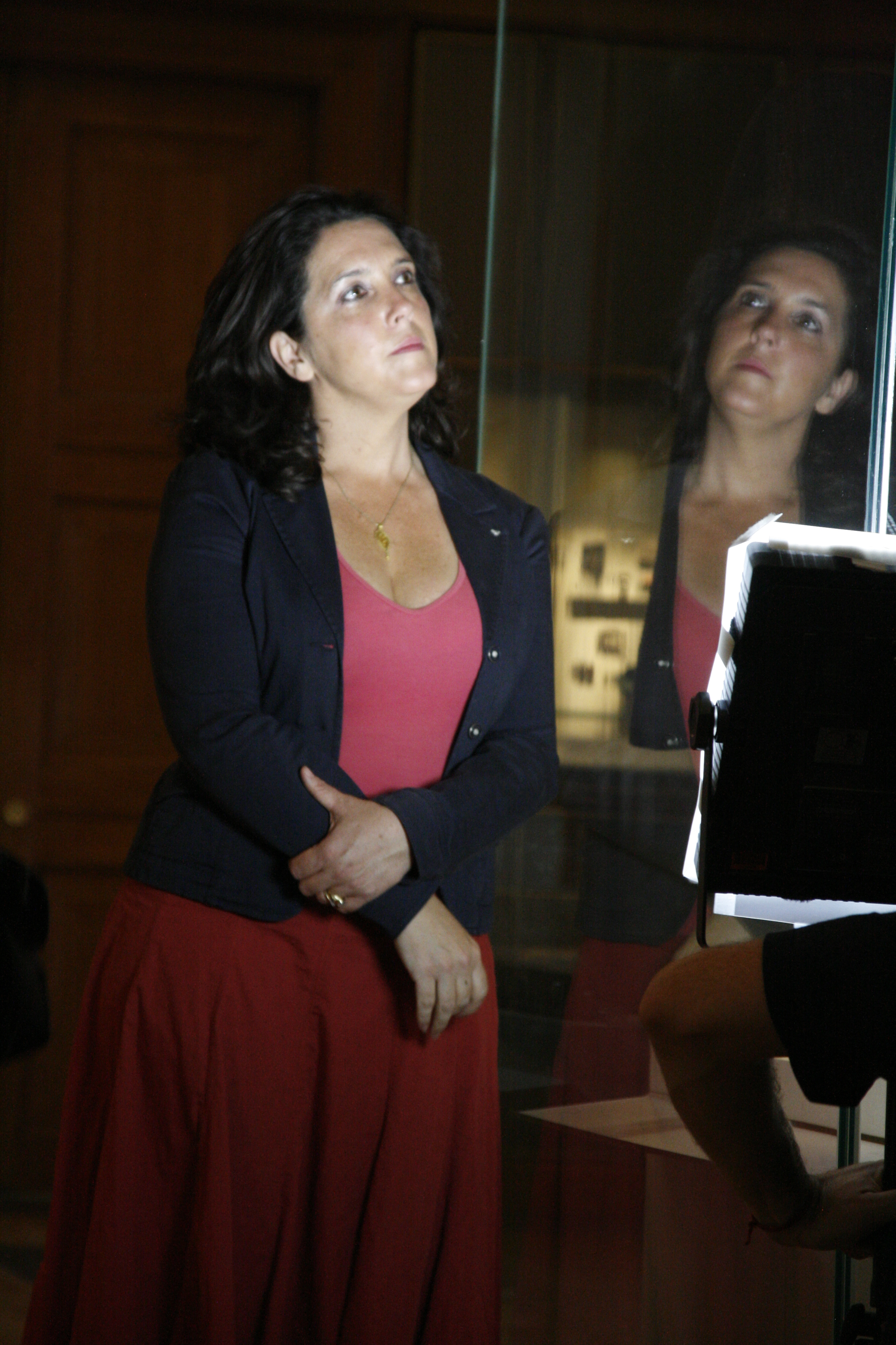 Bettany Hughes during filming of Britain's Secret Treasures at the British Museum.